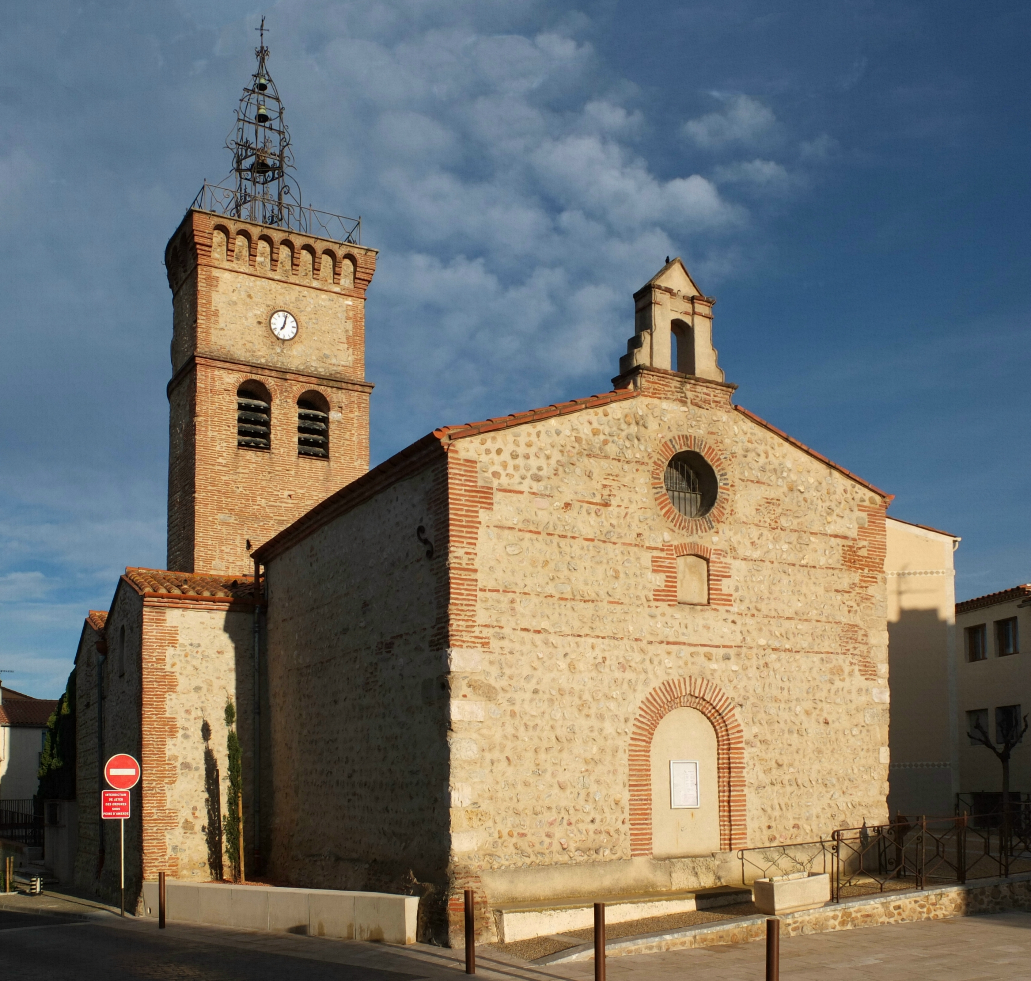 Church Saint-Jacques le Majeur, Latour-Bas-Elne, France, view from NW